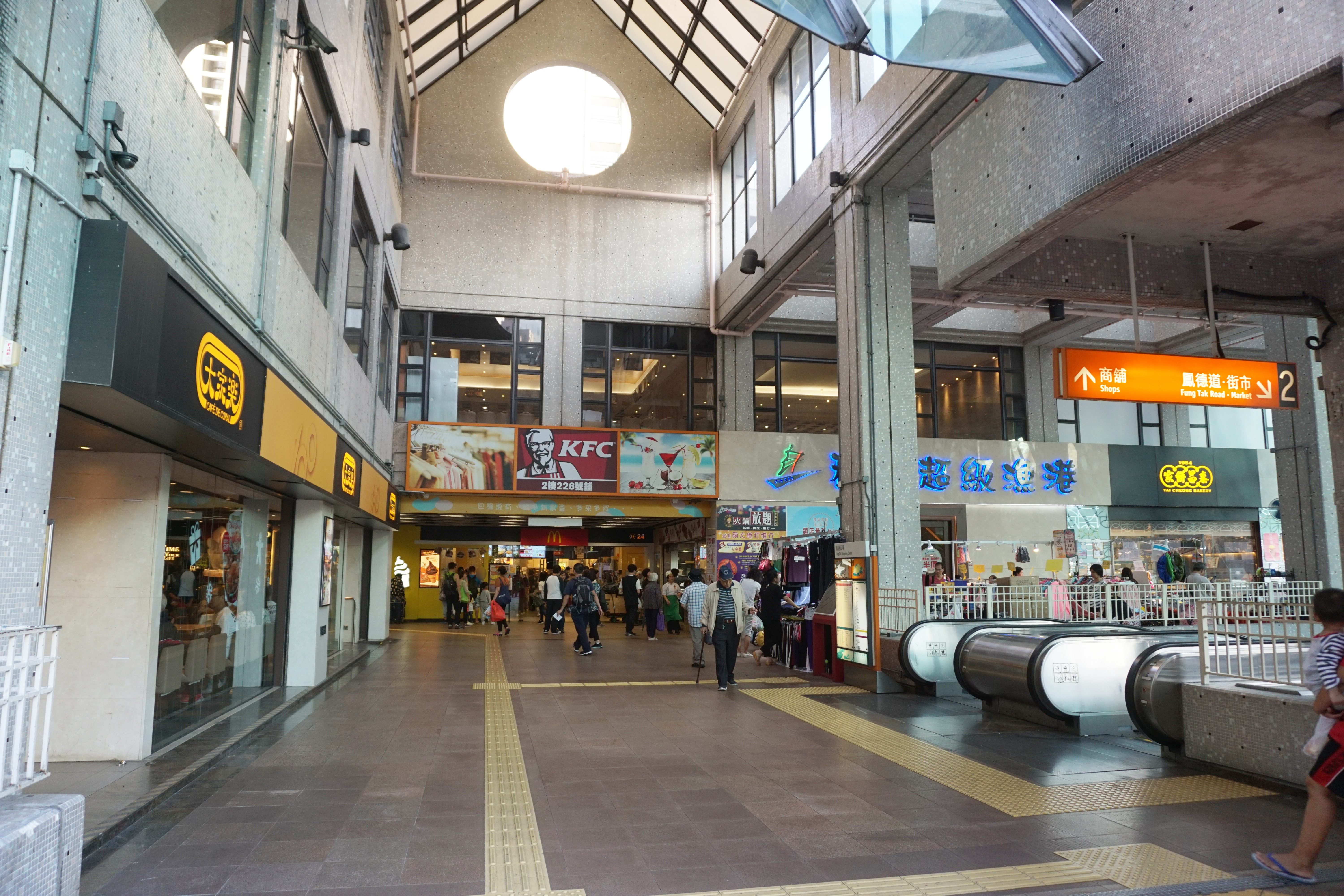 Fung Tak Shopping Centre in Diamond Hill, Hong Kong.